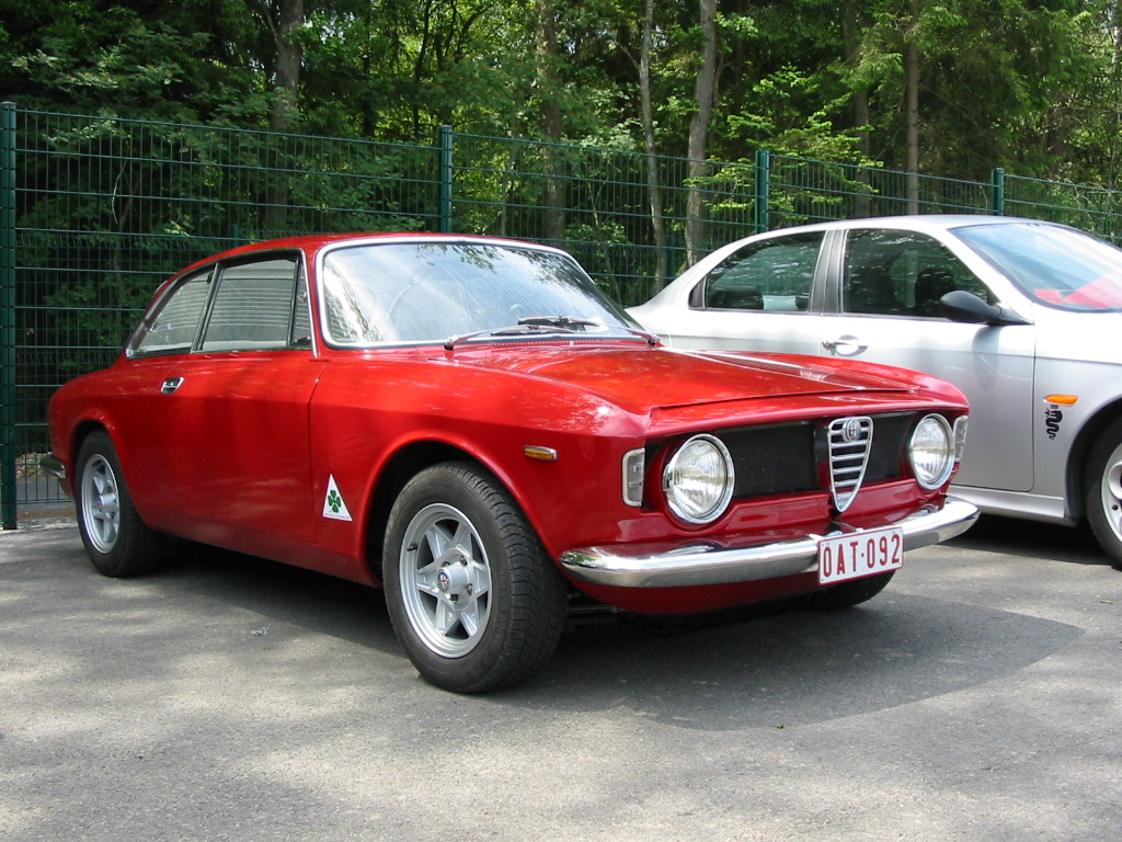 Alfa Romeo Junior GT